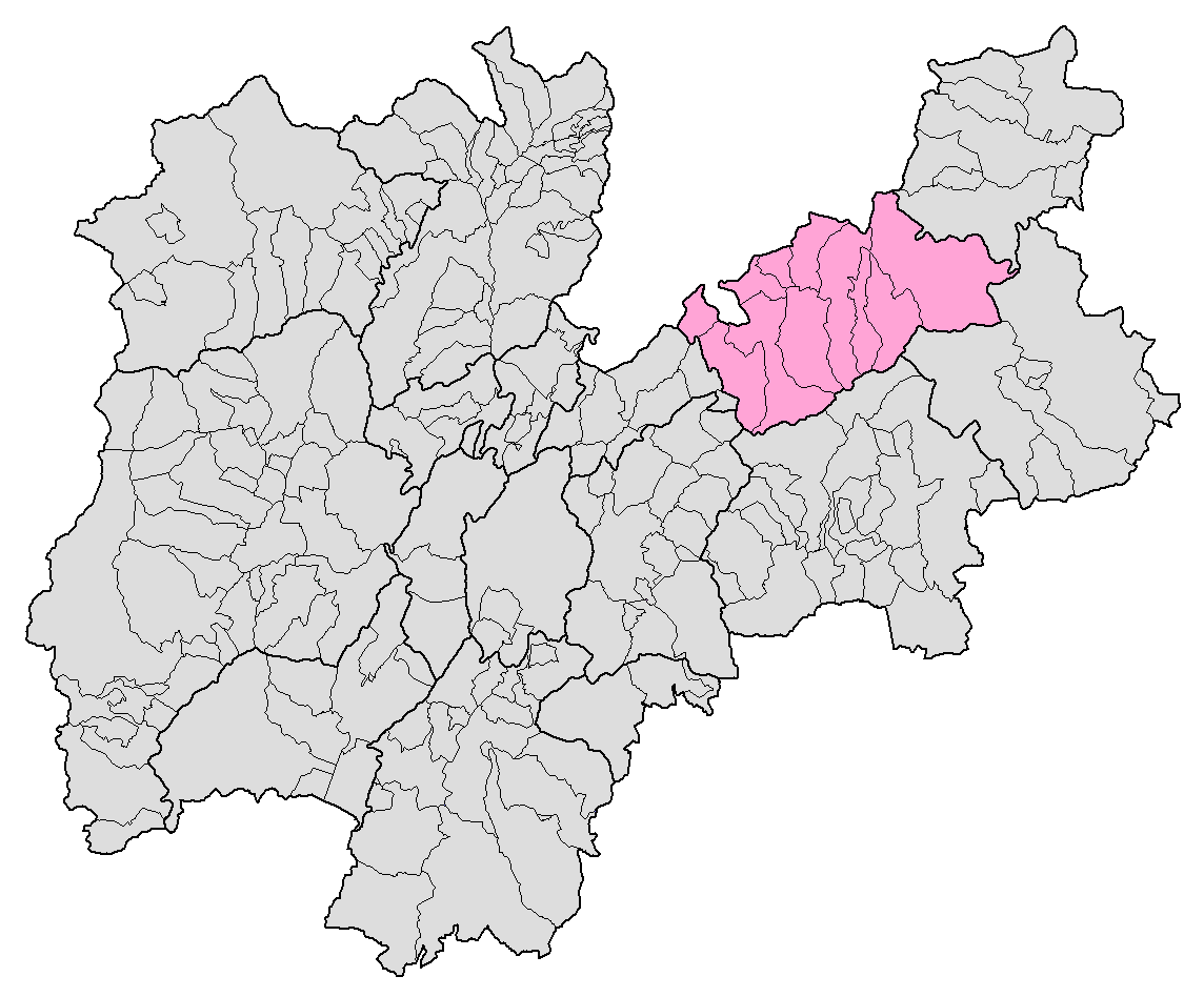 Location map of "Comunità territoriale della Val di Fiemme" (1)